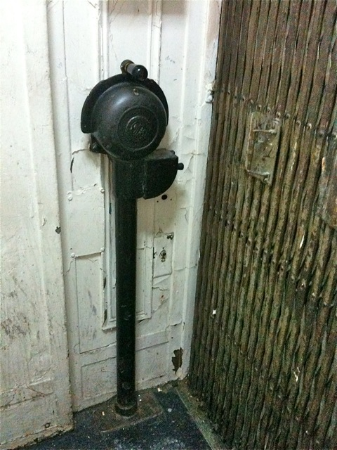 1926 Otis elevator installation; two still in operation in New York City at 1212 Fifth Avenue.